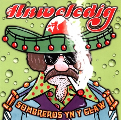 Artwork for the Album Sombreros Yn Y Glaw by Anweledig